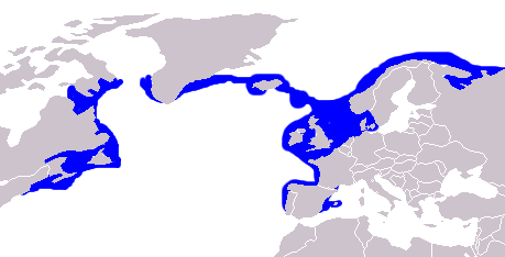 Habitat map for wolf fish (Anarhichas lupus) created by myself using The Gimp using Image:BlankMap-World.png.